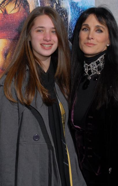 Connie Sellecca and daughter Prima at the premiere of the film Step Up 2 The Streets